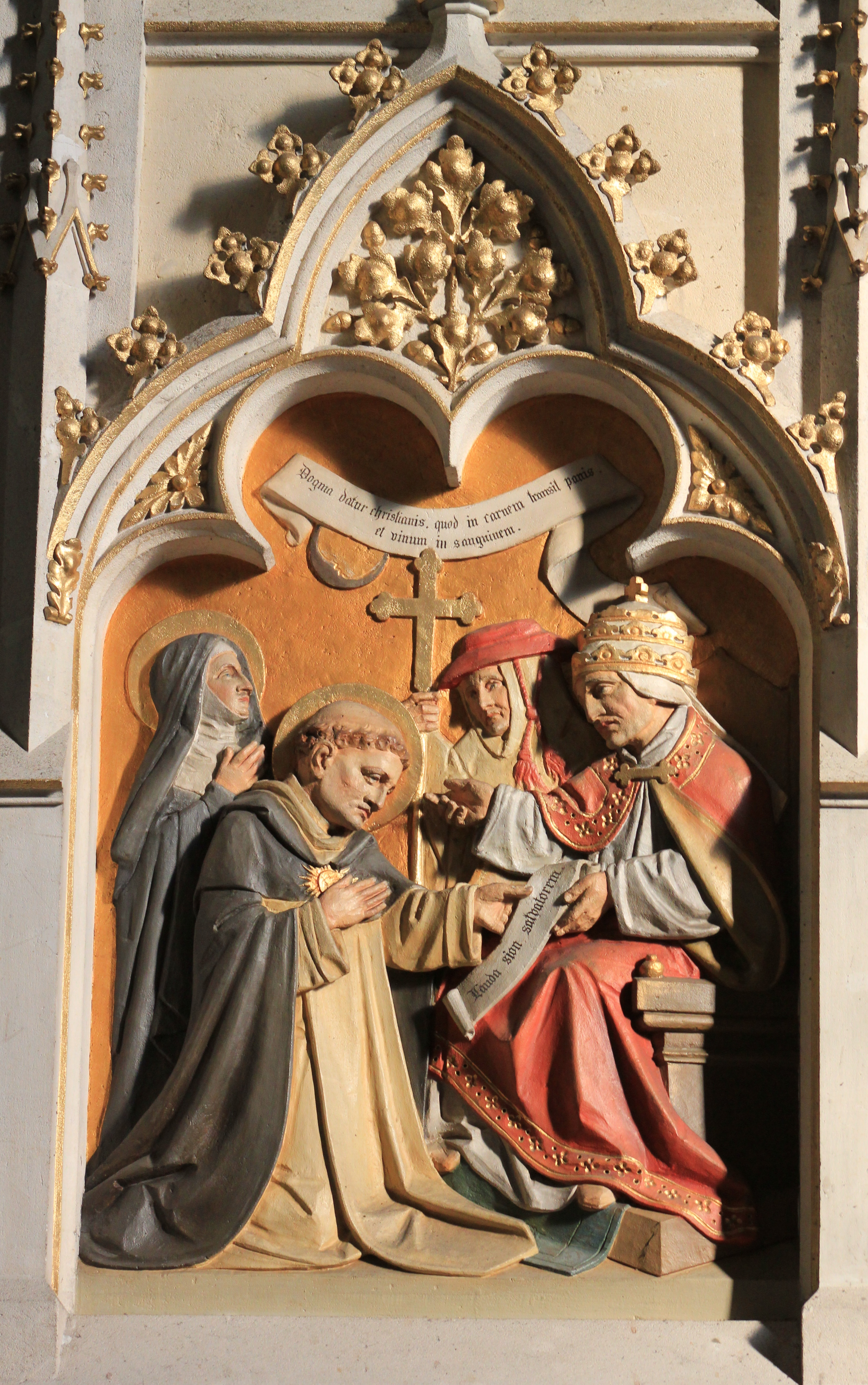 Dominican-Order-church in Friesach: Main altar: Thomas Aquinas